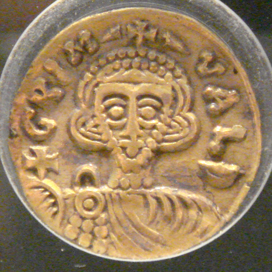 Grimoald_Tremissis_788_792_Benevent_Italy_gold_1270mg